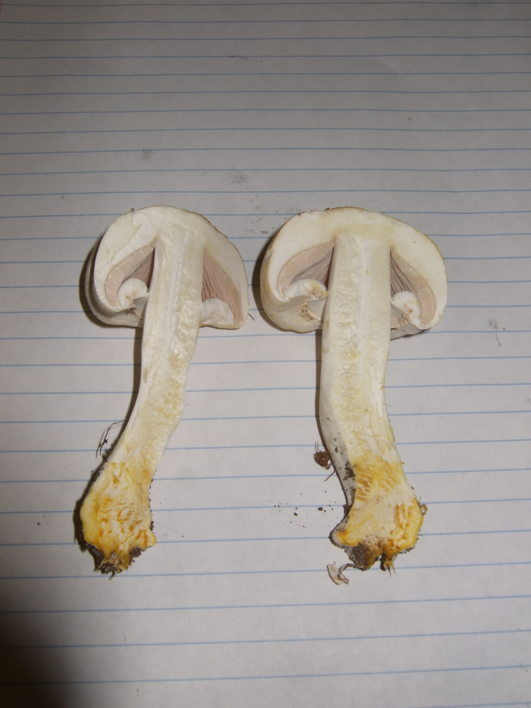 Agaricus xanthoderma sliced open. The yellow stain fades after a few minutes.